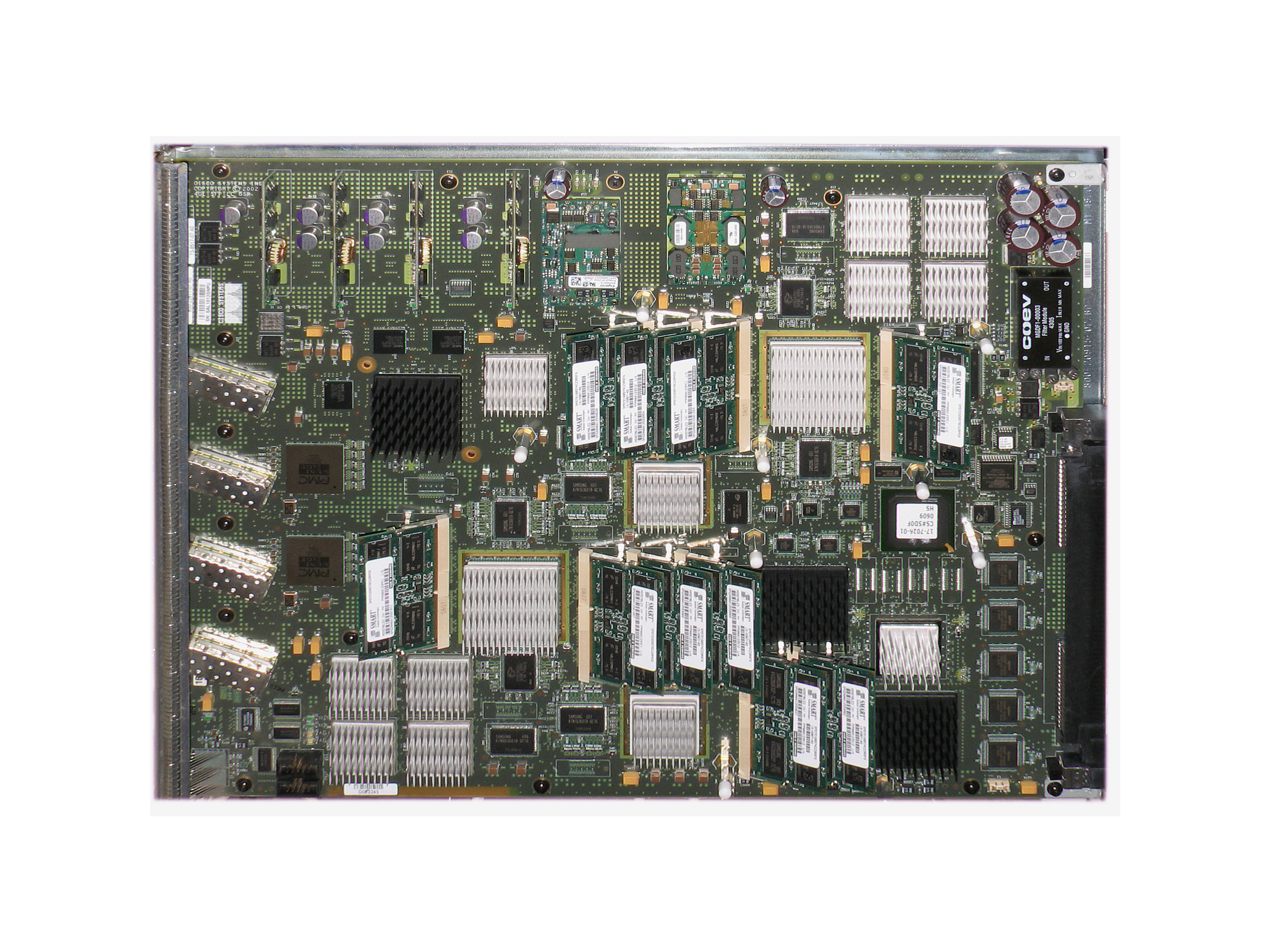 Cisco Gigabit Switch Router (GSR) IP Services Engine (ISE) with four Gigabit Ethernet SFPs. Suboptimal conditions mandated heavy cropping and aggressive perspective correction.